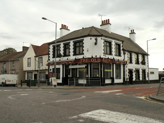 'The Old Ship' public house in Aveley The timber-framed house to the left of the pub is one of the few remaining old buildings in Aveley village.